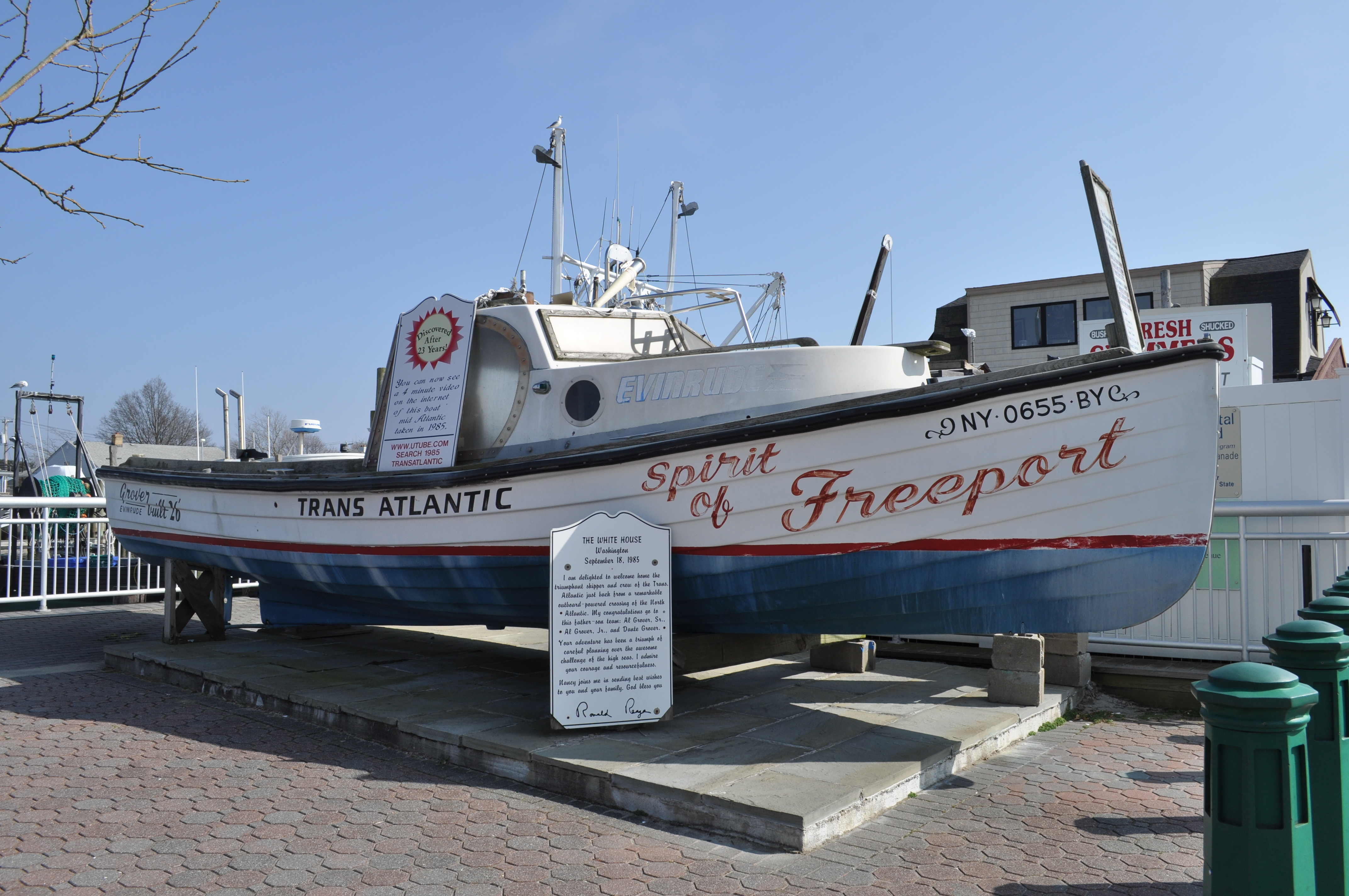 The 26-foot Spirit of Freeport made the first Trans-Atlantic crossing with outboard motors, starting from Nova Scotia August 1, 1985, with fisherman and boatbuilder ("Groverbuilt" boats) Al Grover, Sr. & his son Al Grover, Jr. completing a leg to the Azores, then Al Sr. and another son Dante Grover resuming September 3, 1985 continuing on to Europe. Now on permanent display on the Esplanade of the Nautical Mile, Freeport, Long Island, New York.